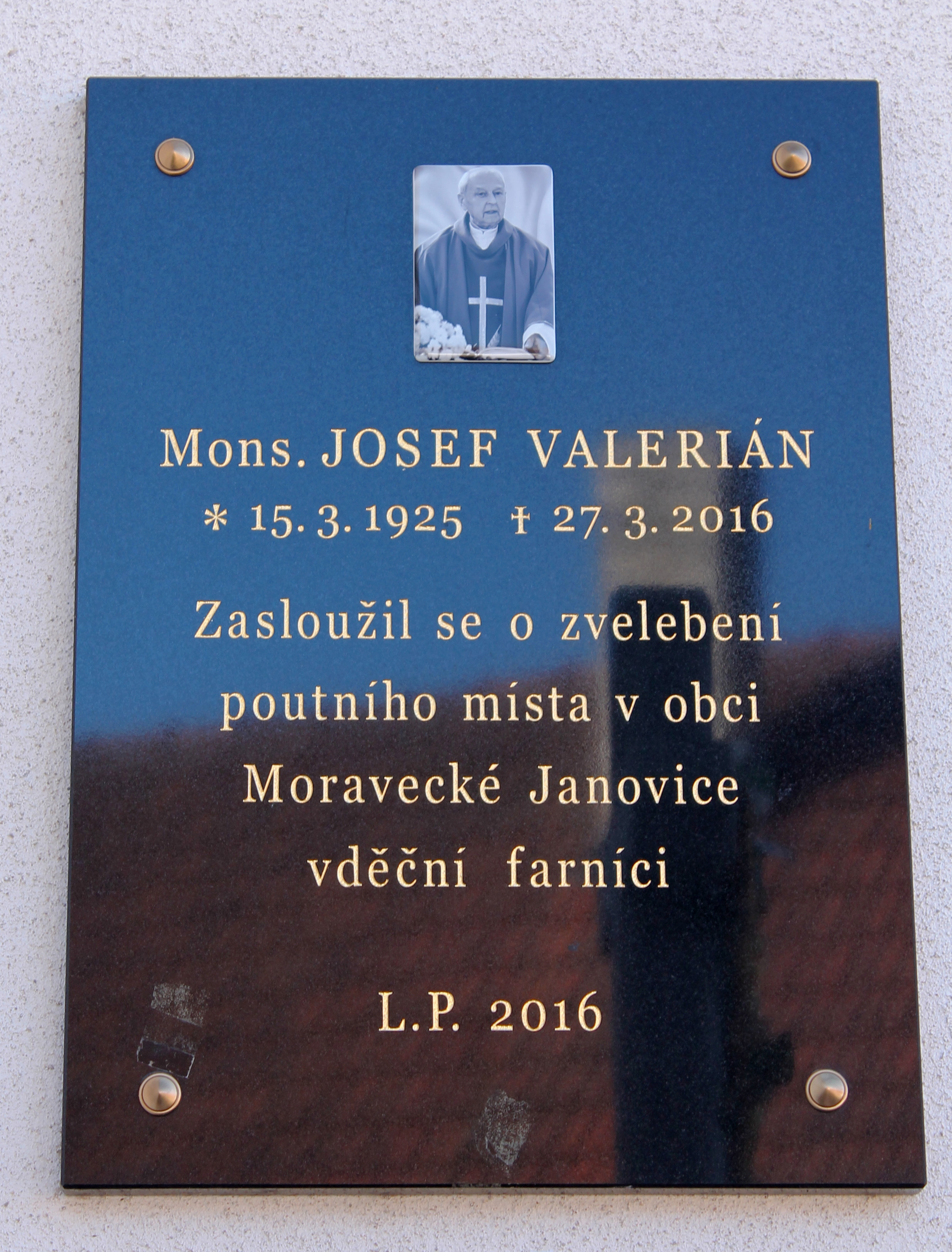 Plaque of Josef Valerián, Moravecké Janovice, Strážek, Žďár nad Sázavou District, Czech Republic